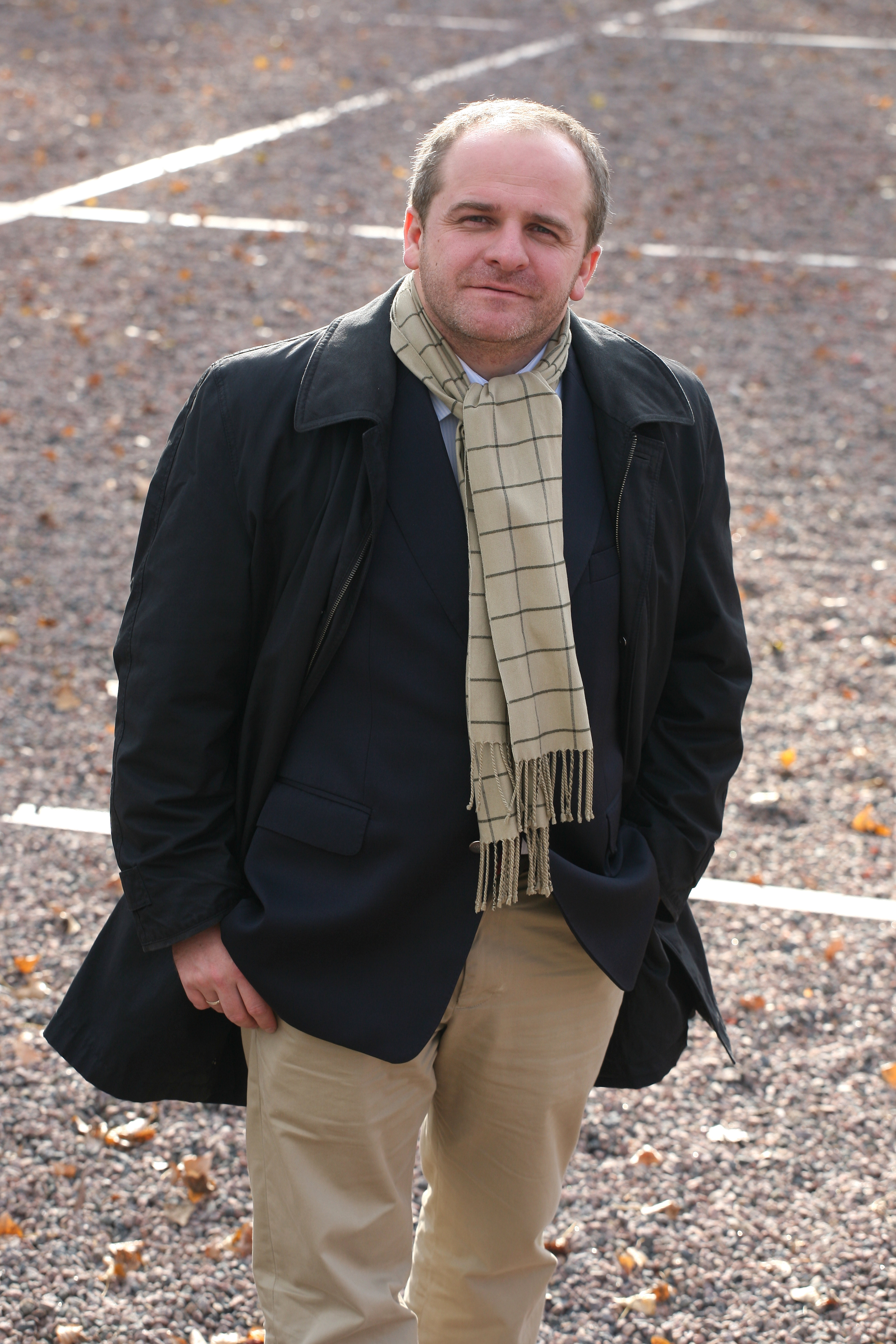 Pawel Kowal